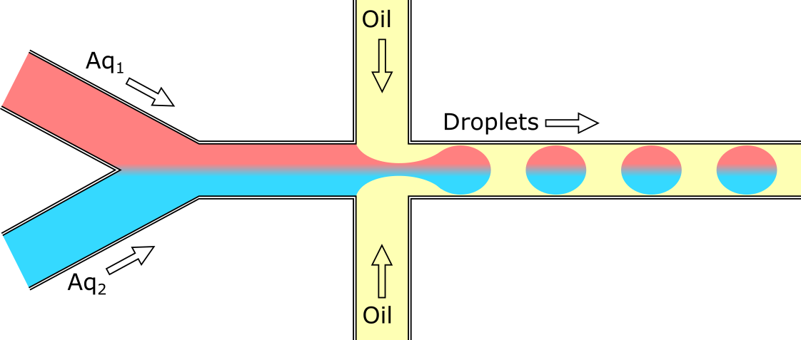 A technique in microfluidics where two fluids are merged in one droplet with little mixing.